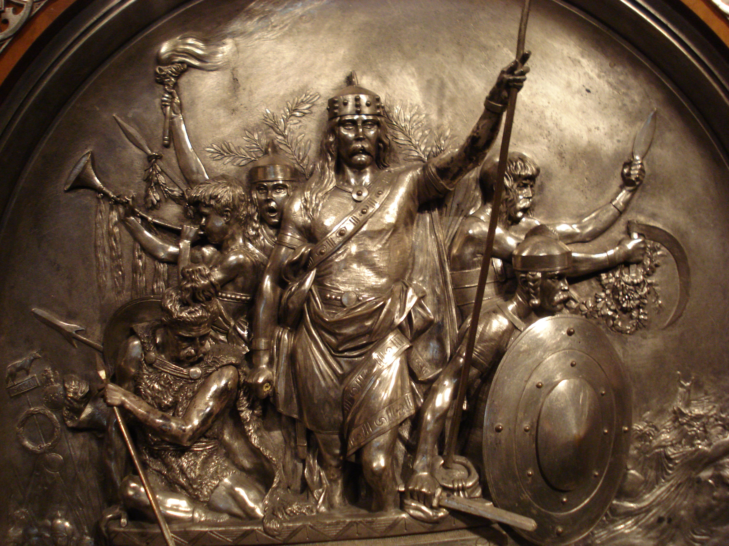 Silvered bronze mount of an armoire depicting the victory of Merovingian King Merovech over the armies of Attila the Hun in 451. By Emmanuel Fremiet, 1867. In the collection of the Metropolitan Museum of Art.